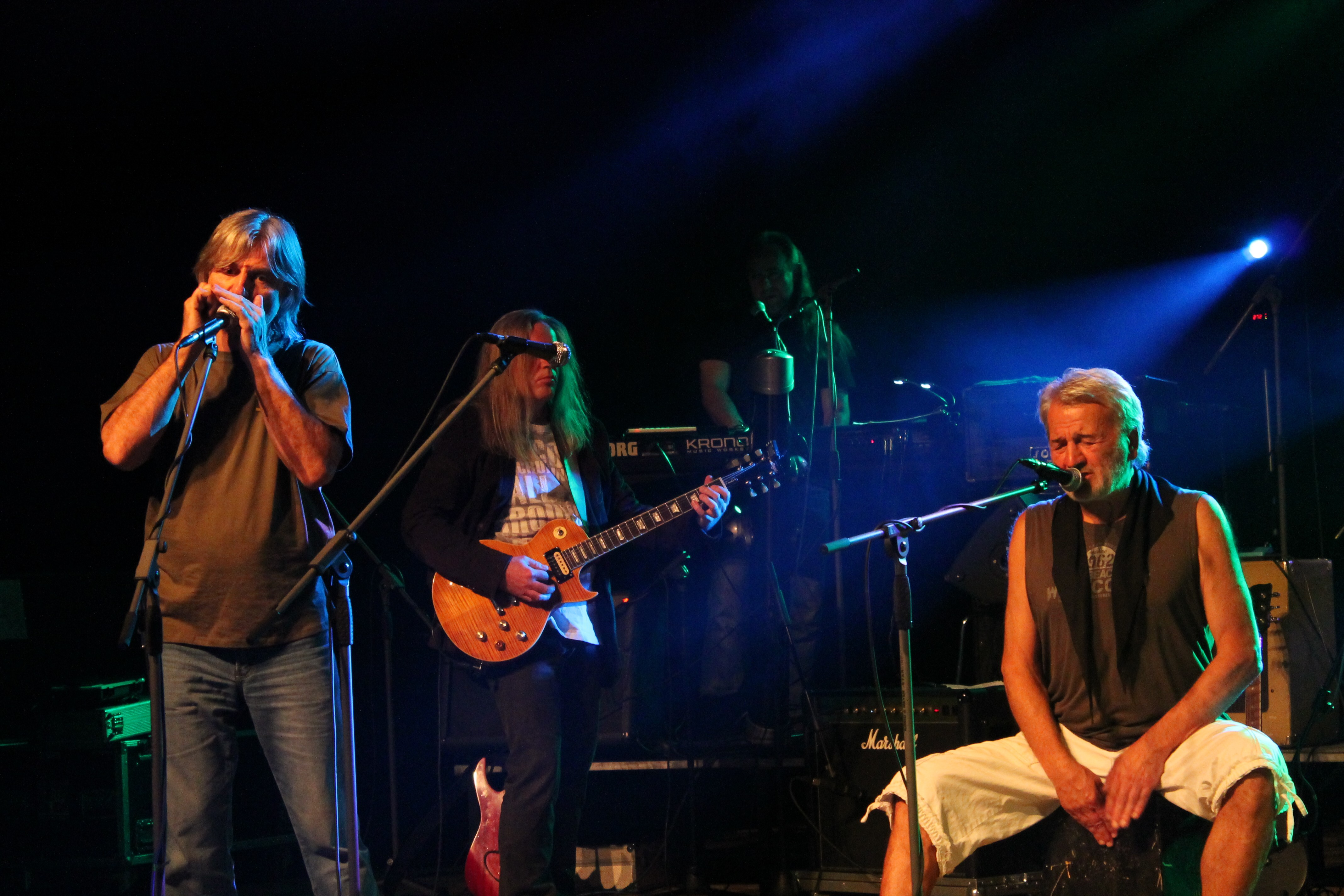 Pavel Váně, guitarist and vocalist of czech rock band Progres 2, Ivan Manolov, former member of czech rock band Progres 2, and Zdeněk Kluka, drummer and vocelist of czech rock band Progres 2, Brno, Czech Republic - OpenStreetMap(Info)